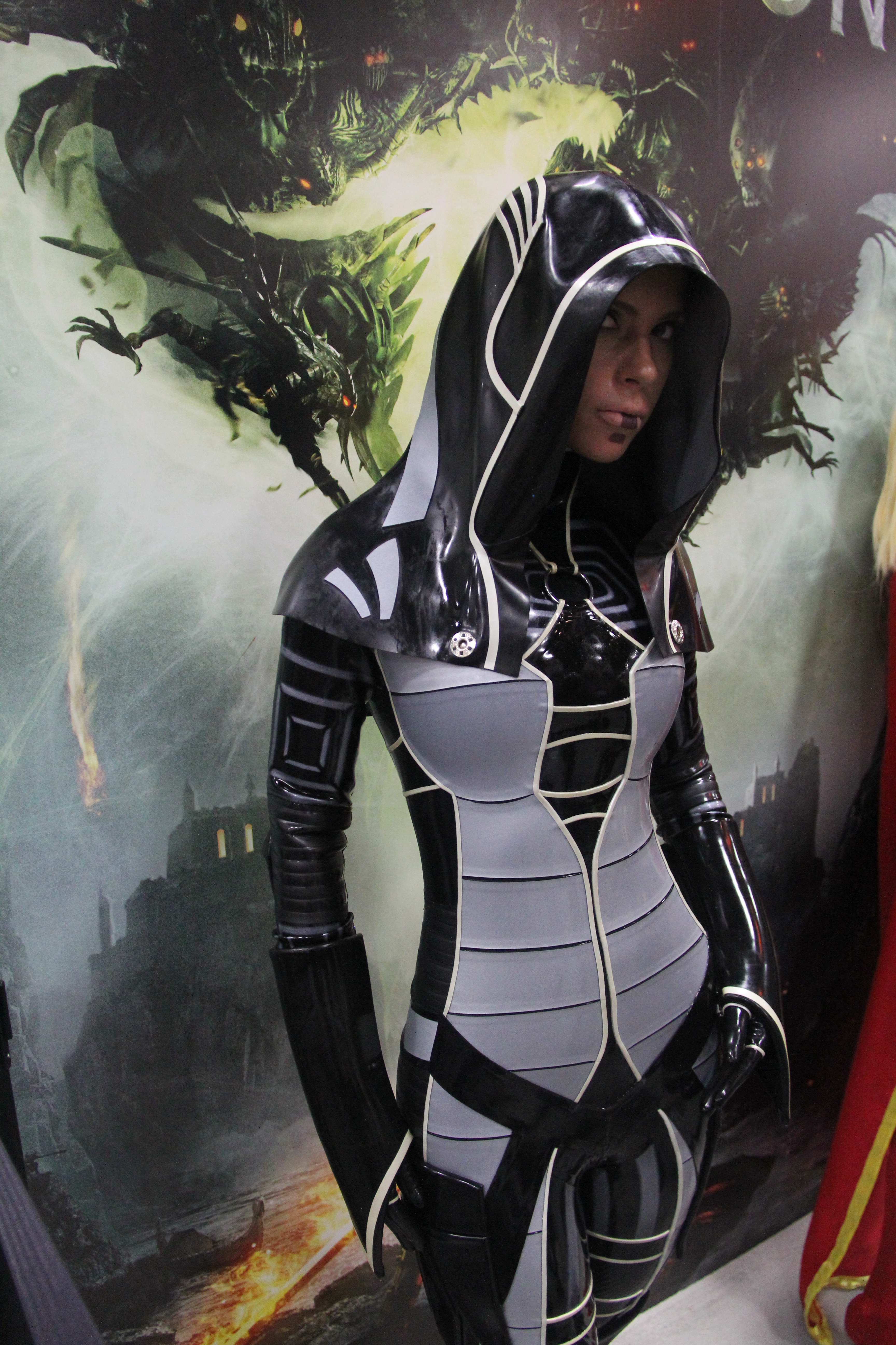 IMG_0534 Cosplay at San Diego Comic-Con (SDCC 2014).